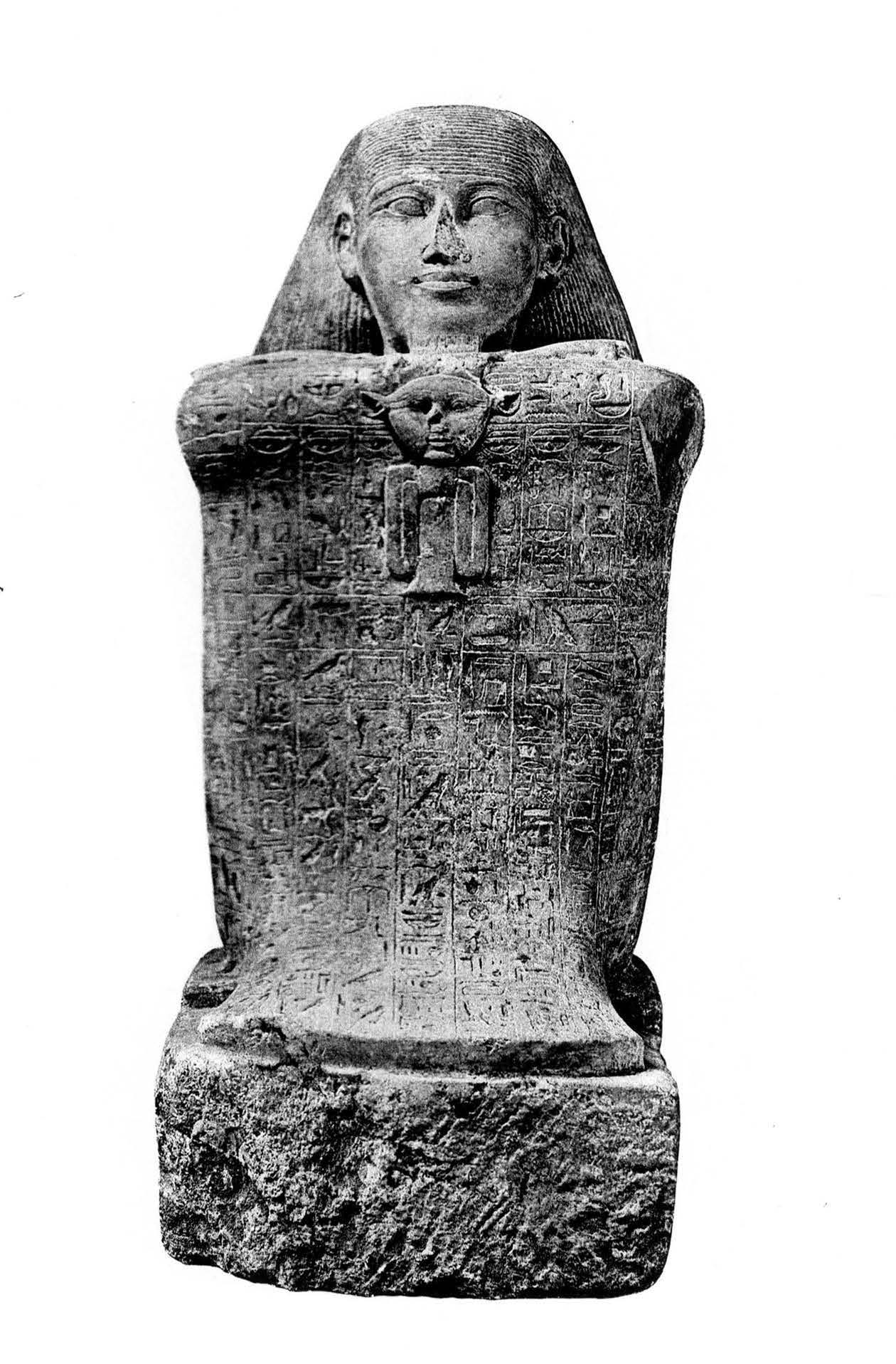 Block statue of the ancient Egyptian "Second priest of Amun" Harsiese C, dedicated by his son, the "Fourth priest of Amun" Djedkhonsuefankh C. Reign of the Theban king Harsiese A (the statue bears his cartouche), Third Intermediate Period. Alabaster, found in 1904 in the Karnak cachette, now in Cairo Museum (CG 42210).